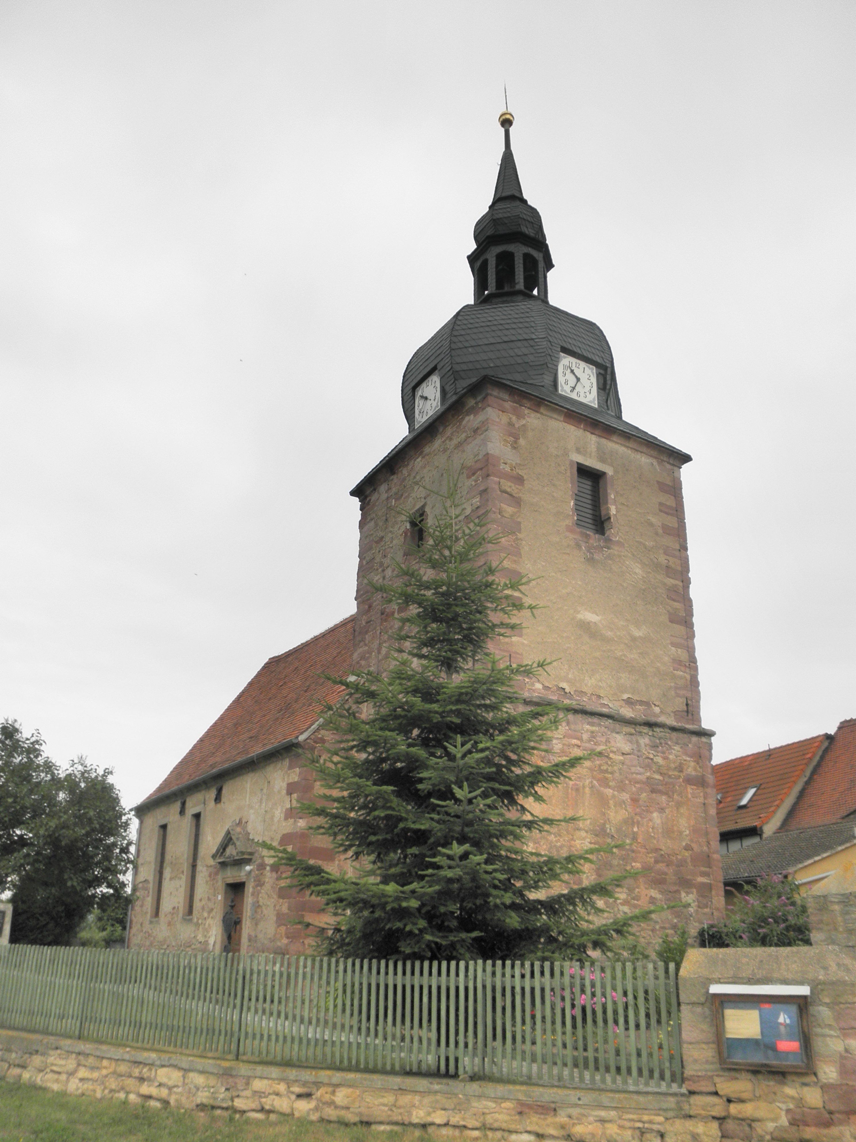 Church in Schönfeld (Artern) in Thuringia